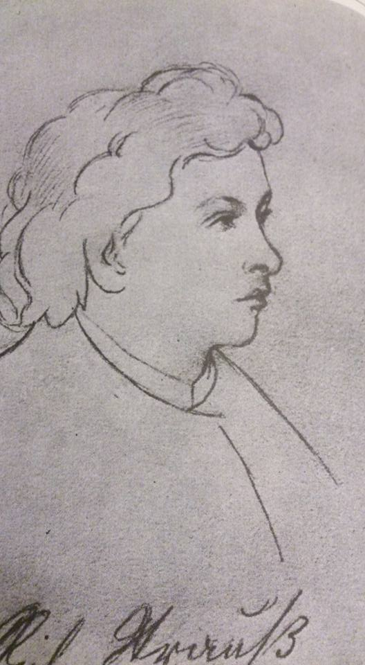 A portrait of Richard Strauss in 1880 (when he was 16 years old) by a family friend.